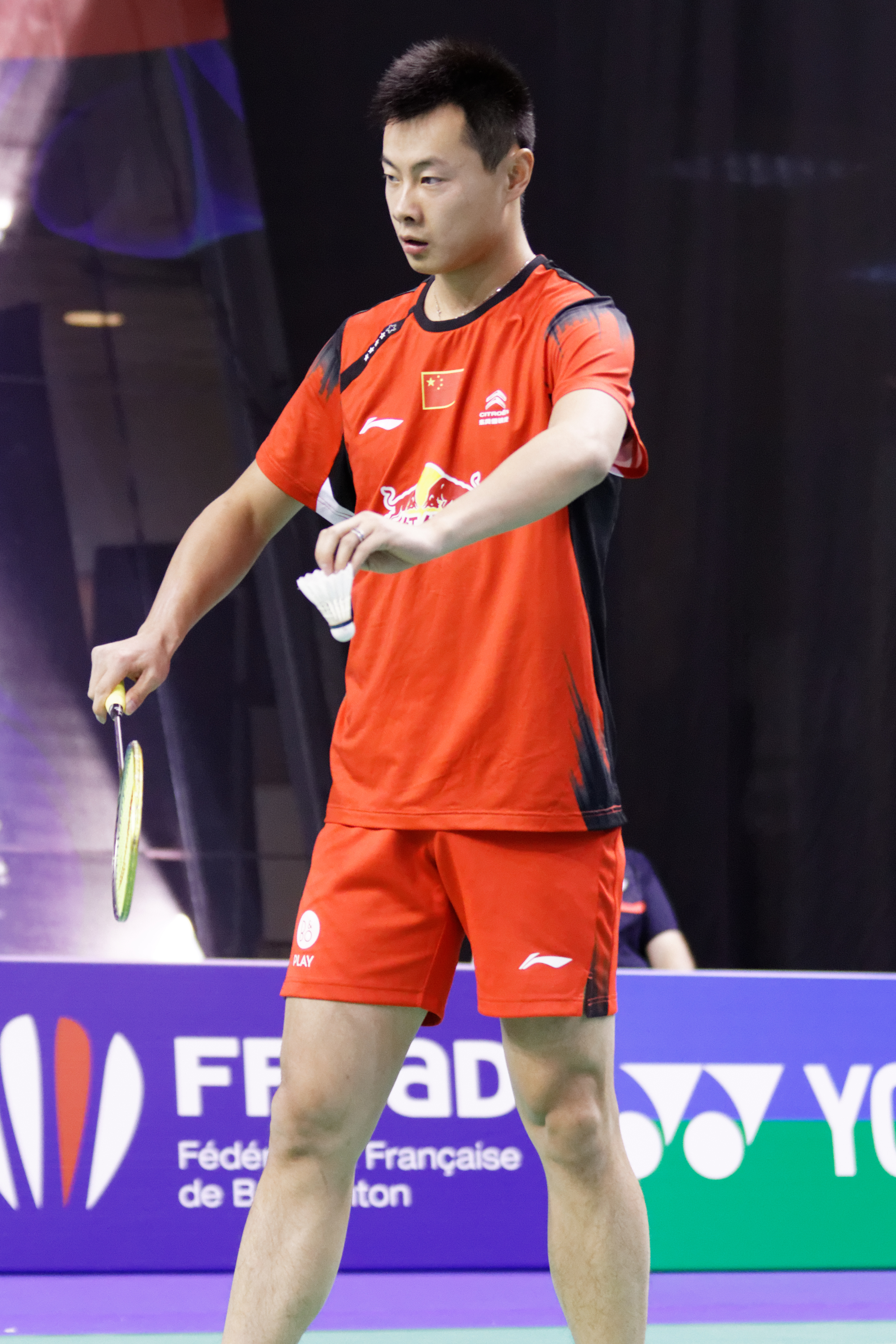 2013 French open. Mixed's doubles eightfinal. Lee Hei-chun - Chau Hoi Wah vs Xu Chen - Ma Jin.